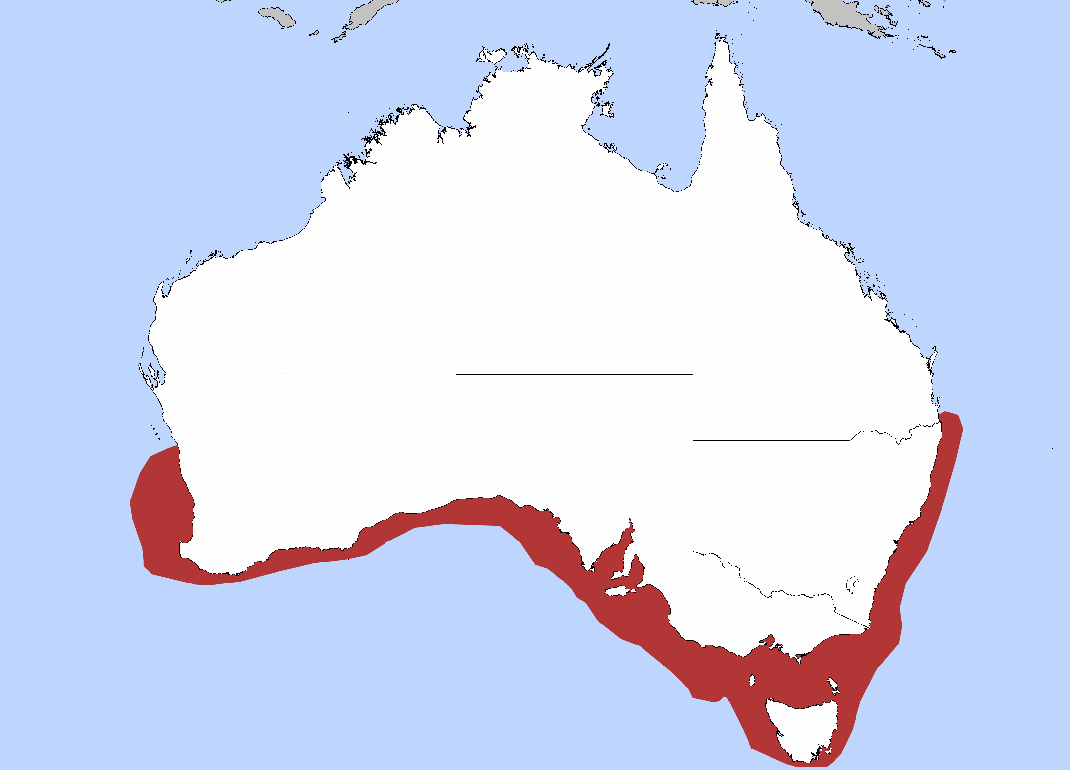 The Distribution of the Gummy Shark